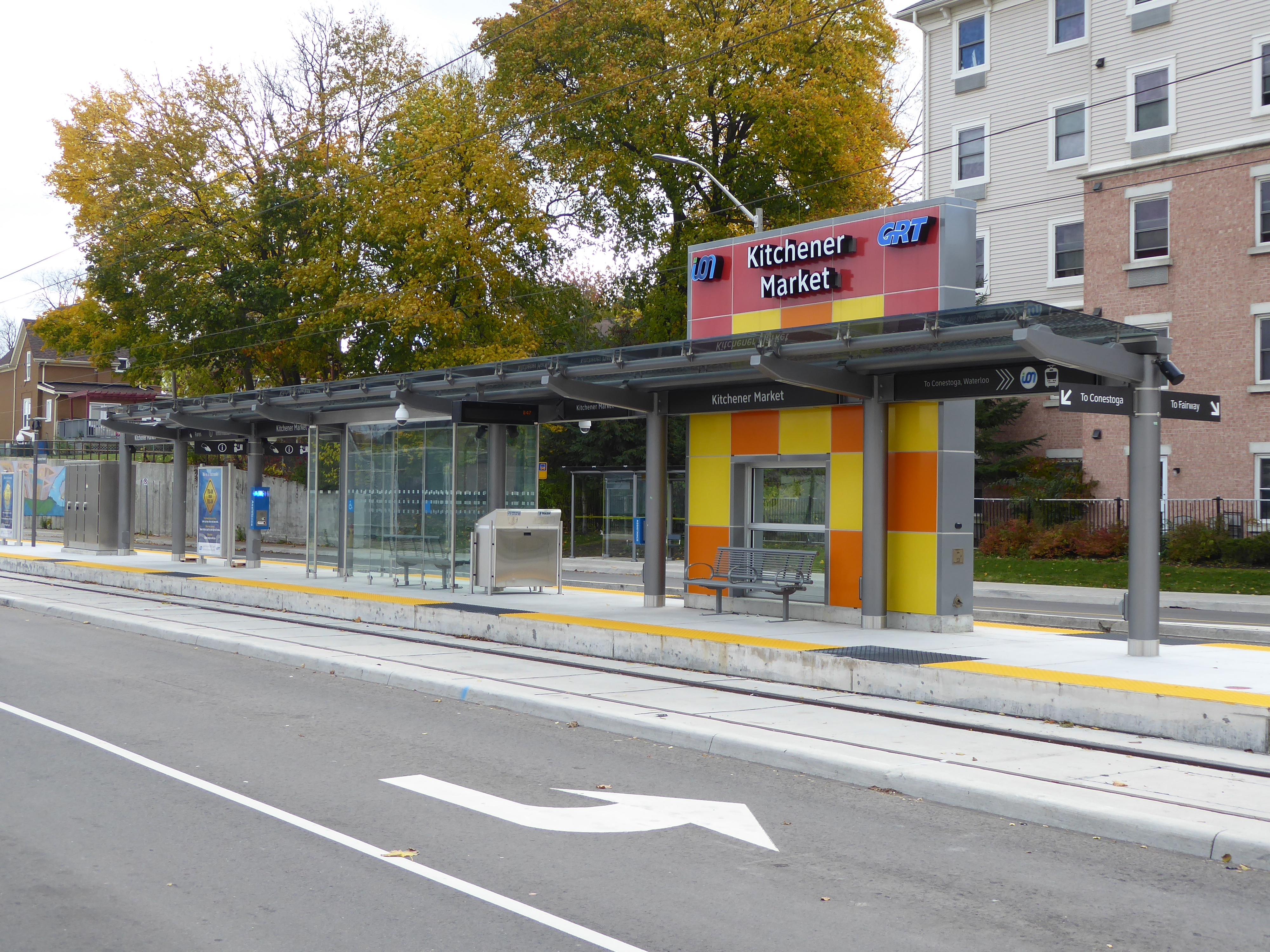 Kitchener Market Station of the Ion rapid transit system, photographed structurally complete November 2017